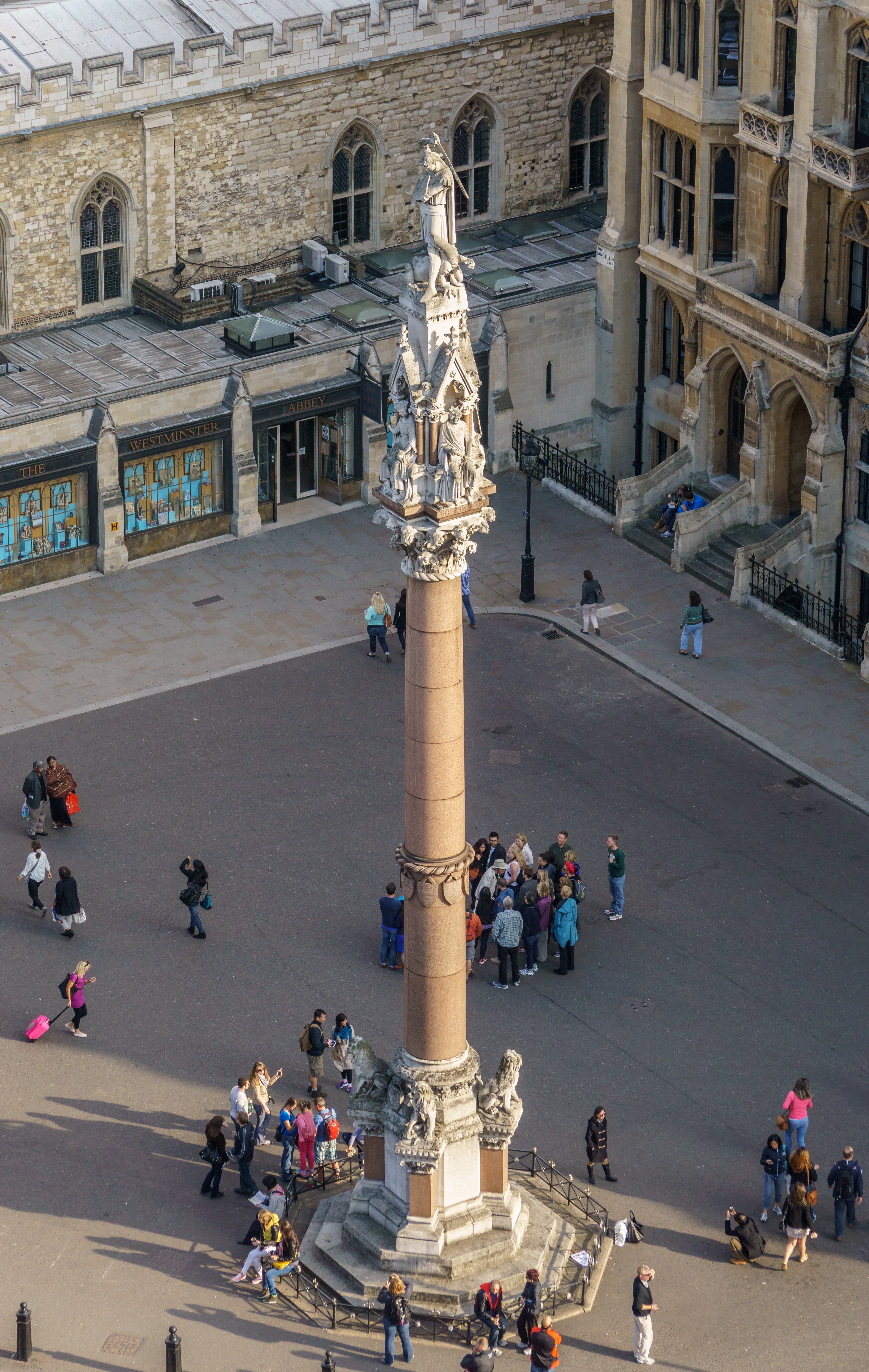 The "Crimean War and Indian Mutiny Memorial". By Sir George Gilbert Scott. In memory of the fallen of Westminster School.